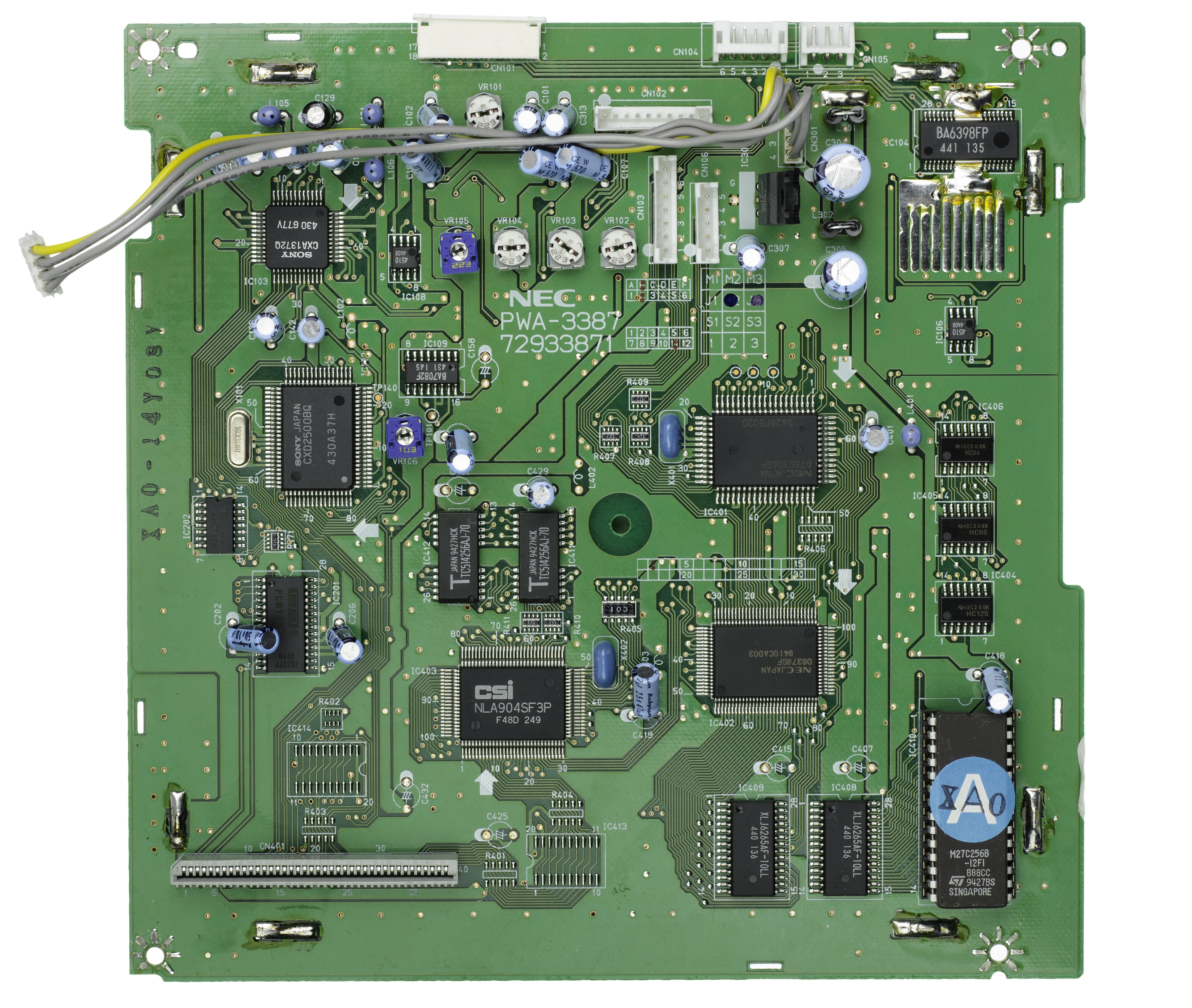 The daughterboard for a NEC PC-FX video game console. The PC-FX is a fifth-generation gaming console by NEC. Released only in Japan in 1994, the PC-FX was an unsuccessful follow-up to the PC Engine console line. It was a CD-based system whose design was reminiscent of a PC tower.